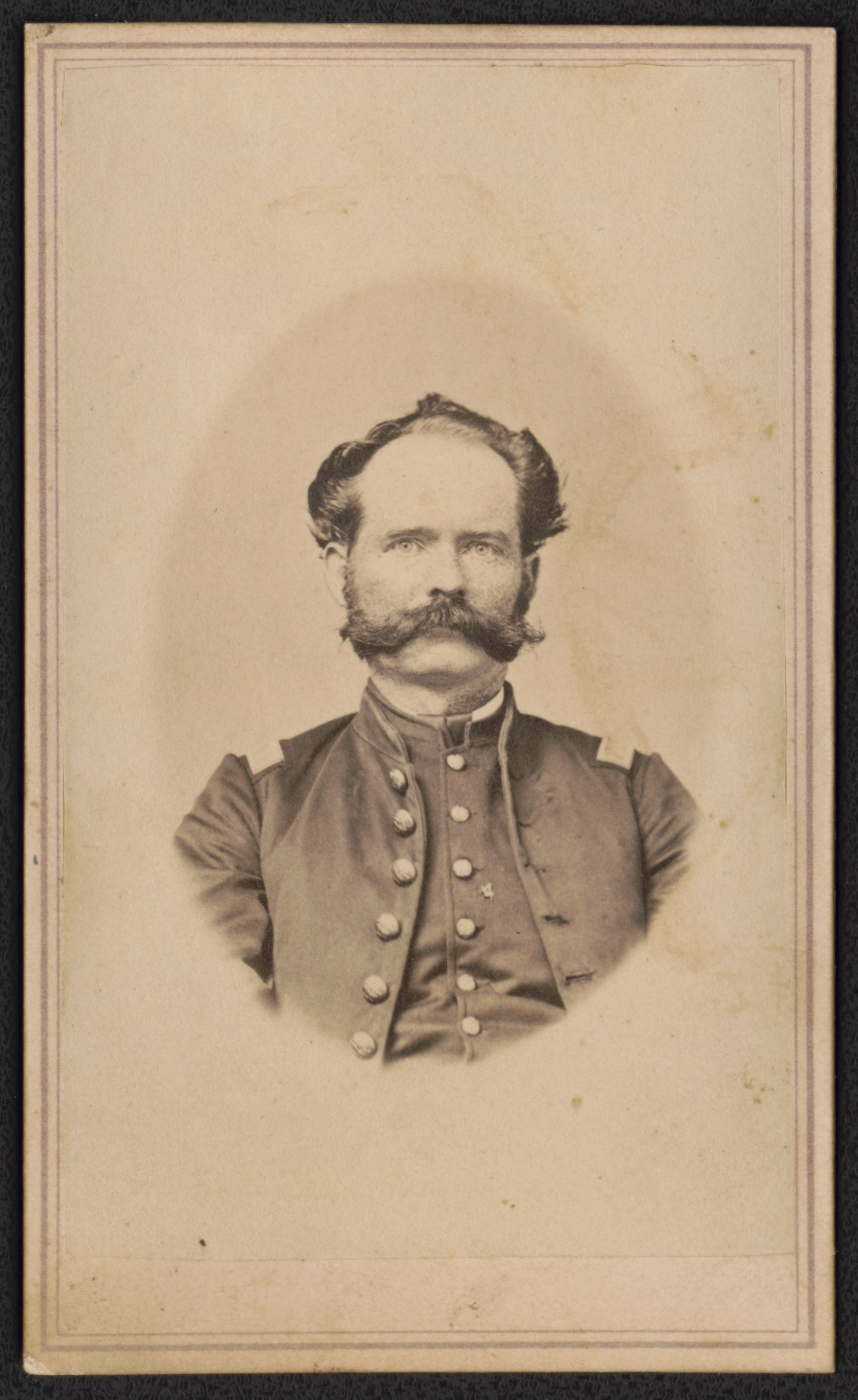 Title: Lieutenant Thomas C. Bird of Co. C, 31st Iowa Infantry Regiment in uniform] / Campbell & Ecker, photographers, 407 Main Street, Louisville, Ky Abstract/medium: 1 photograph : albumen print on card mount ; mount 11 x 6 cm (carte de visite format)